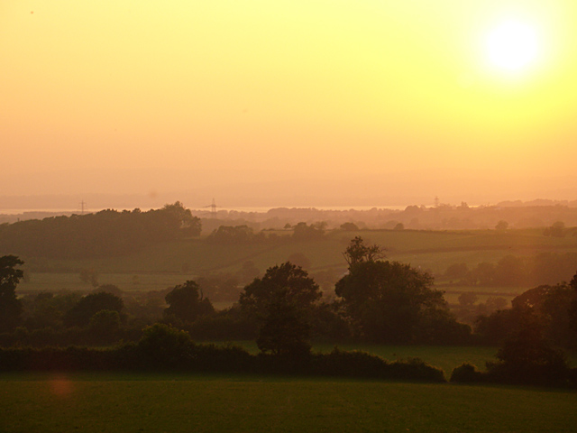 Looking across the fields from Woodhouse Park Looking towards Wales from Woodhouse Park - a Scout facility. The river Severn can just be seen in the distance.